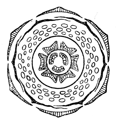 Flower diagram of Punica granatum